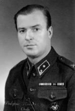 Arvo Mörö, Knight of the Mannerheim Cross #87